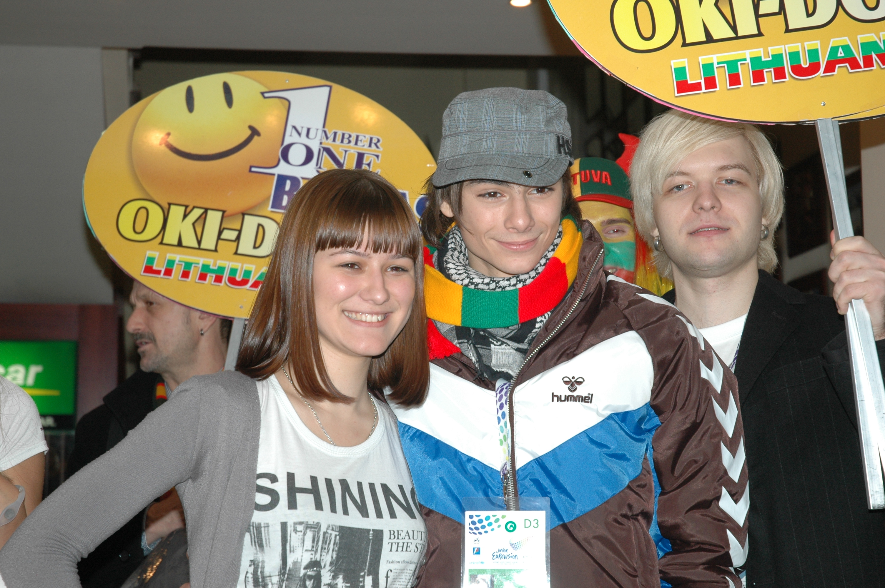 Nojus Bartaška at Junior Eurovision Song Contest 2010